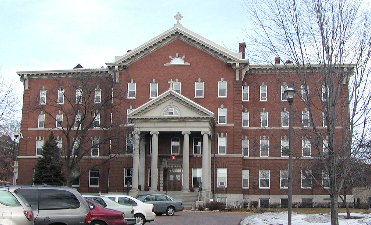 Derham Hall, College of St. Catherine, 2004 Randolph Avenue, Saint Paul